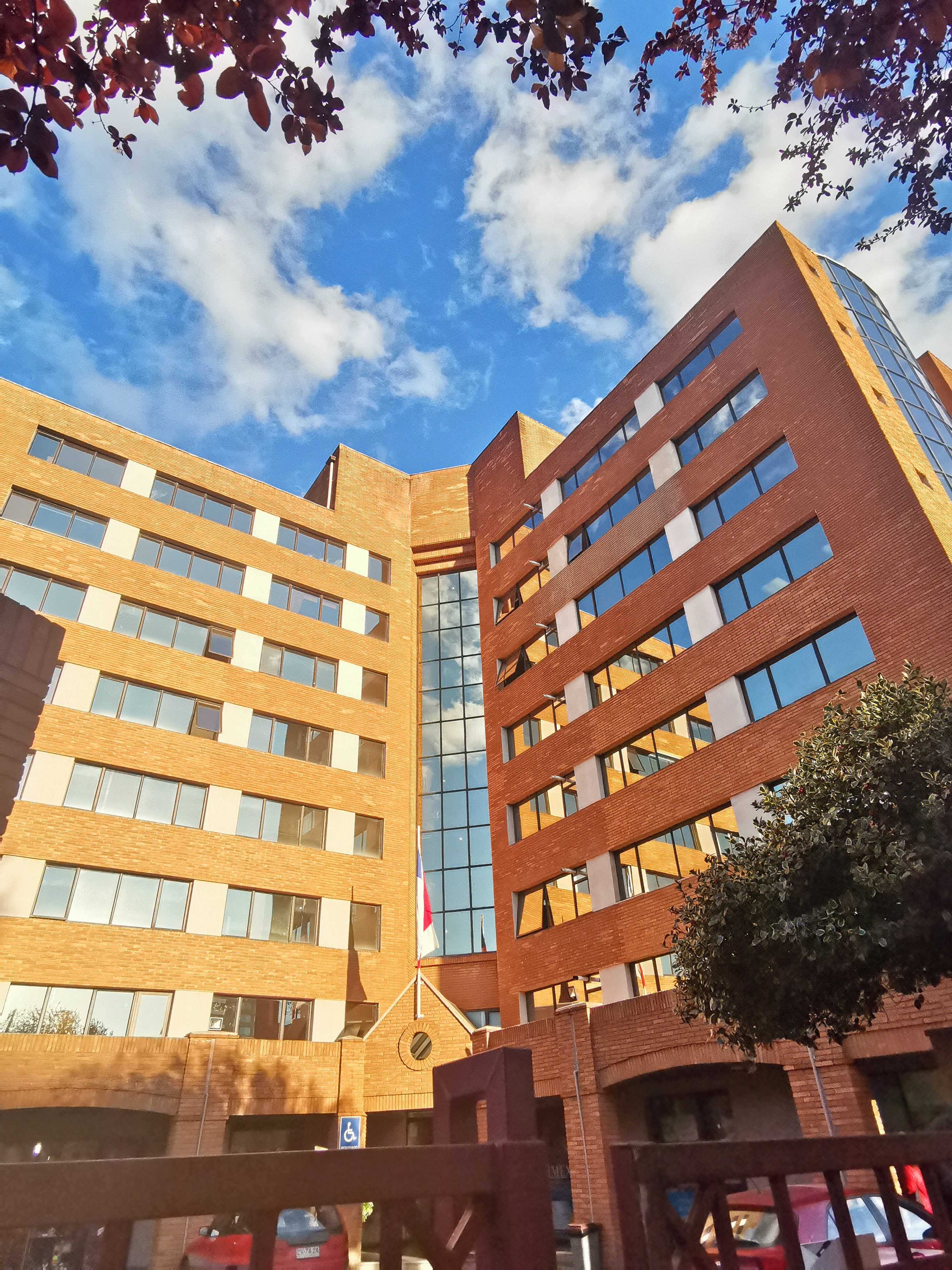 Edificio Dinamarca Quiropráctico Juan Pablo Navarrete